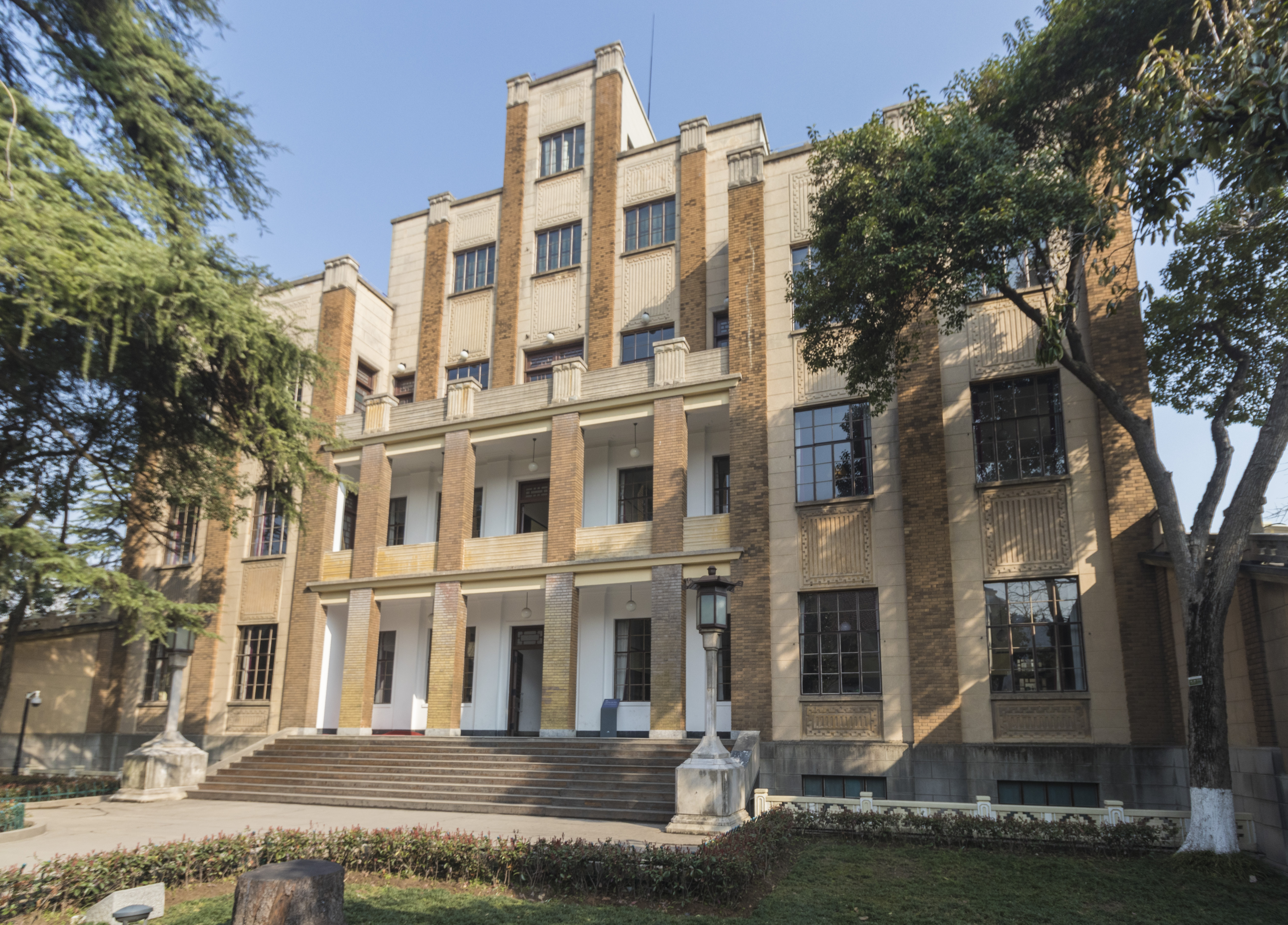 Presidential Palace, Nanjing